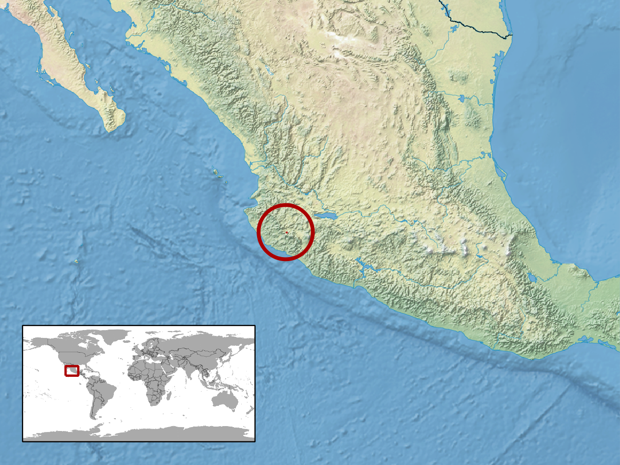 Geographic distribution of Crotalus lannomi (Native: Mexico)